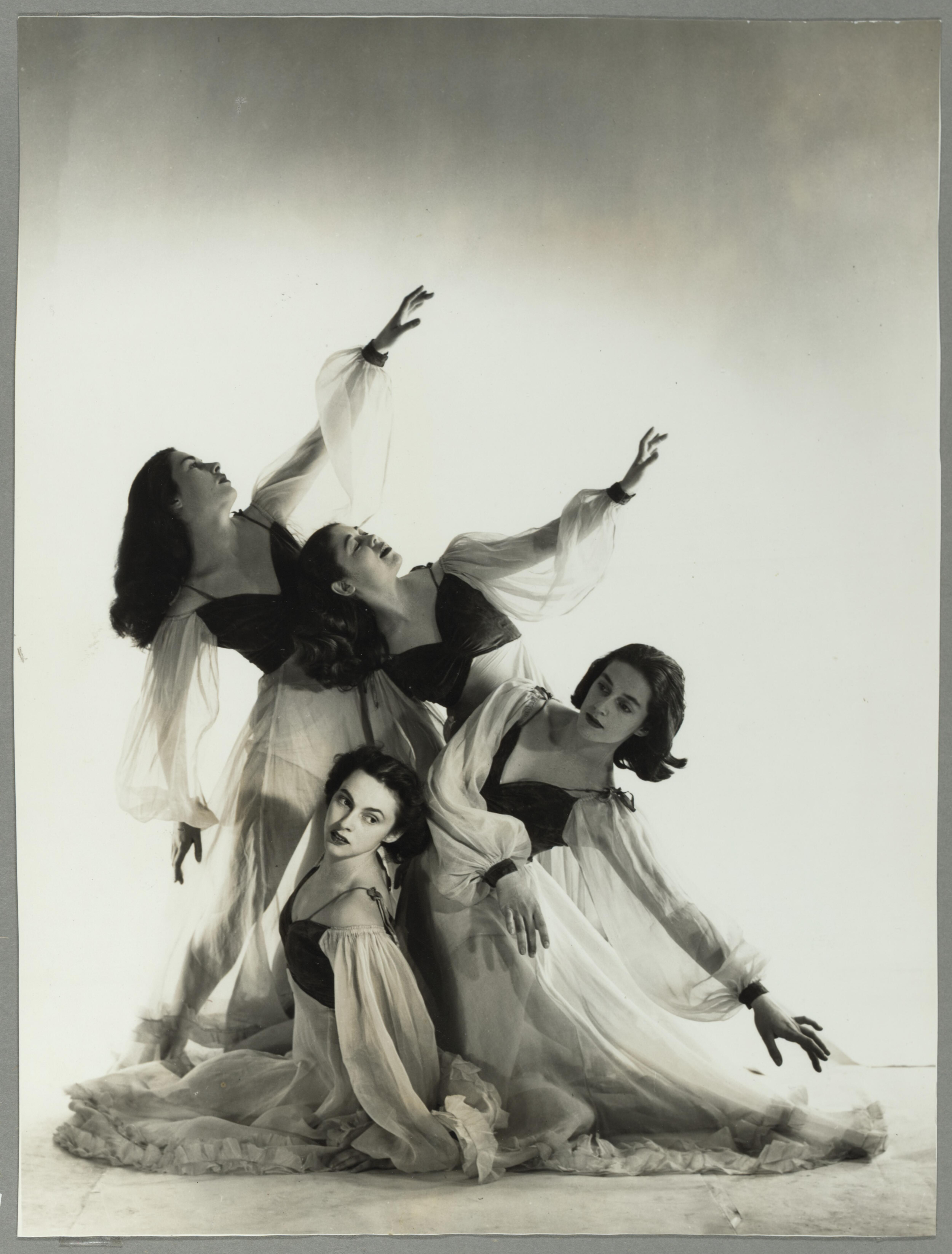 Part of the collection: Papers of Gertrud Bodenwieser.; At rear, left to right: Moira Claux, Elaine Vallance, Nina Bascolo. Front: Biruta Apens.; Also available in an electronic version via the Internet at: .au/nla.ms-ms9263-2-5x. Persistent URL .au/nla.ms-ms9263-2-5x